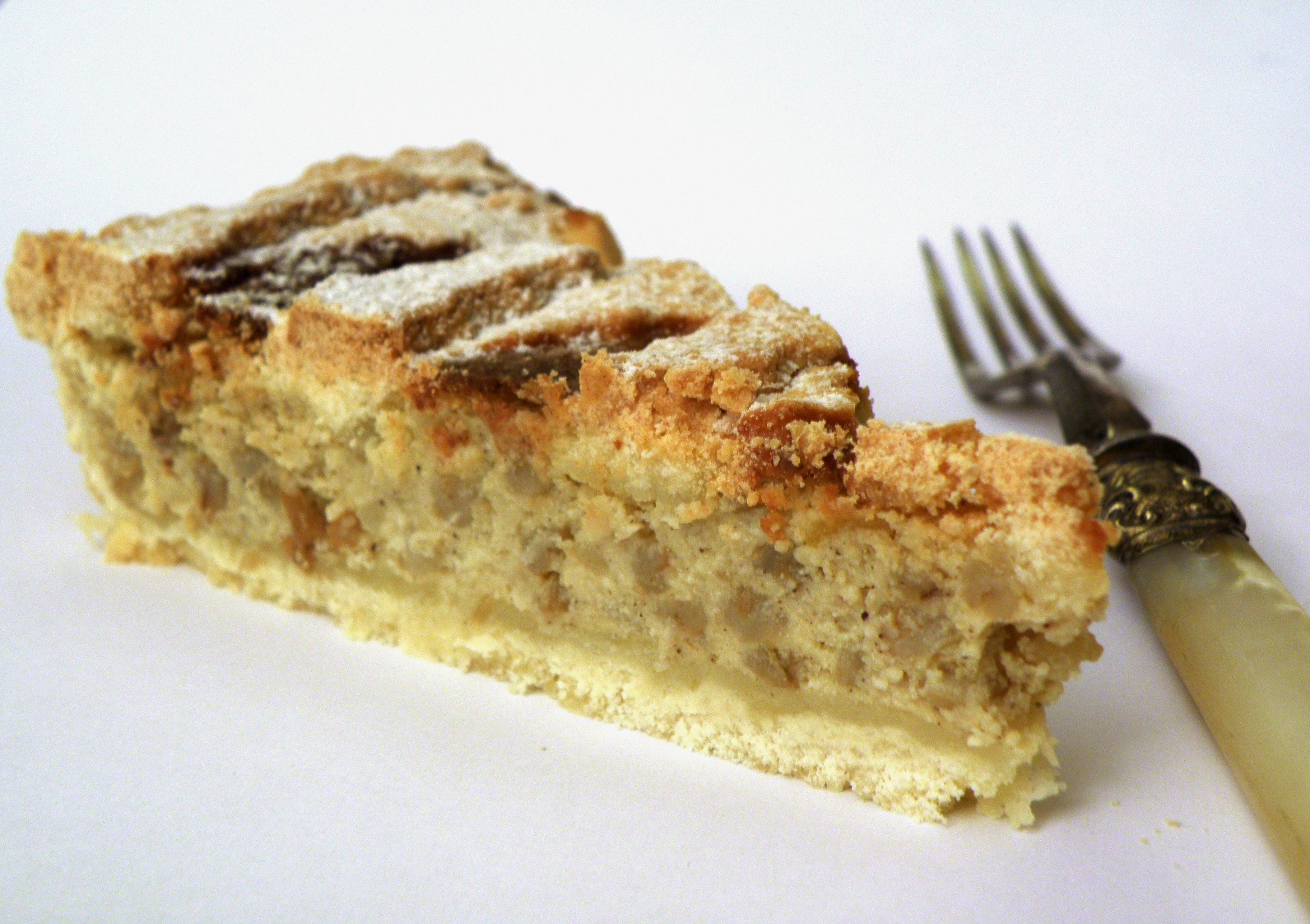 A slice of Neapolitan pastiera, and a fork.